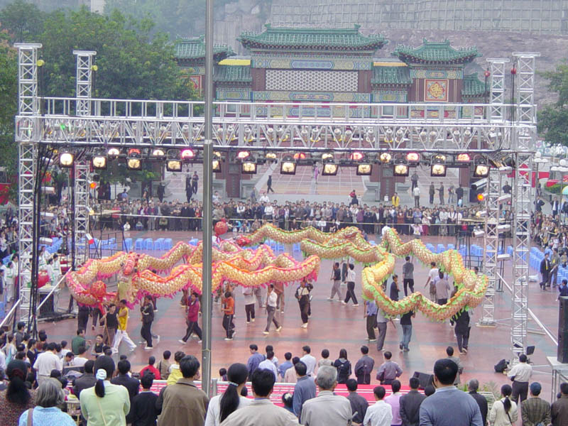 A double dragon Dance in Chongqing, China, in celebration of modern China's National Day on 1 October.